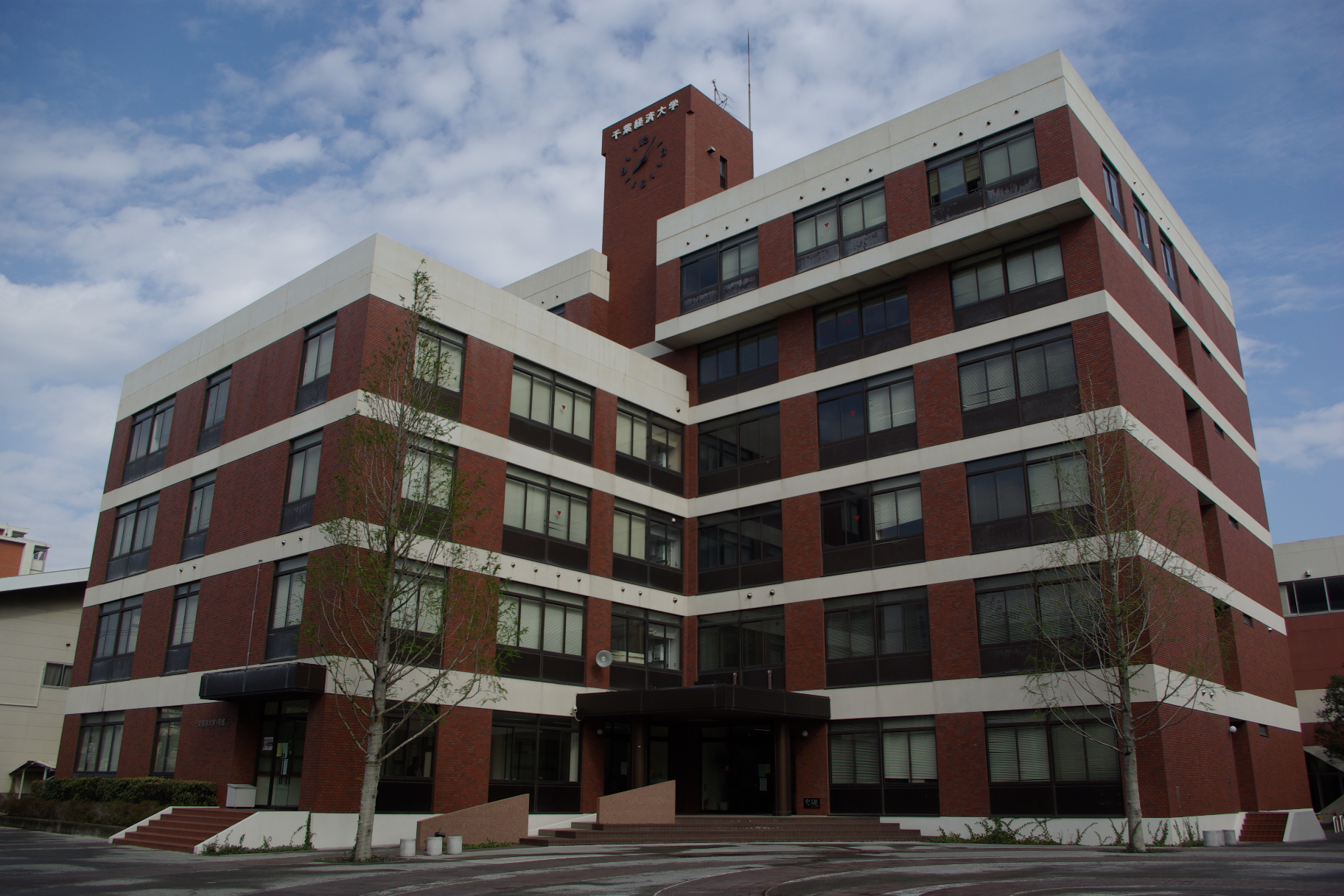 No.1 Building of Chiba Keizai University